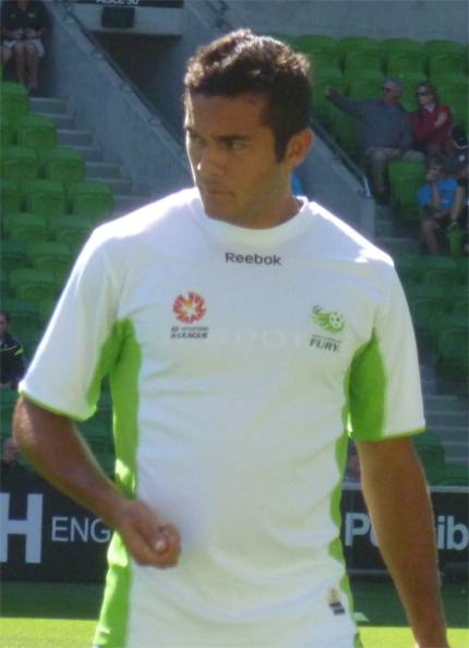 Papua New Guinean footballer Brad McDonald warming up for A-League side North Queensland Fury